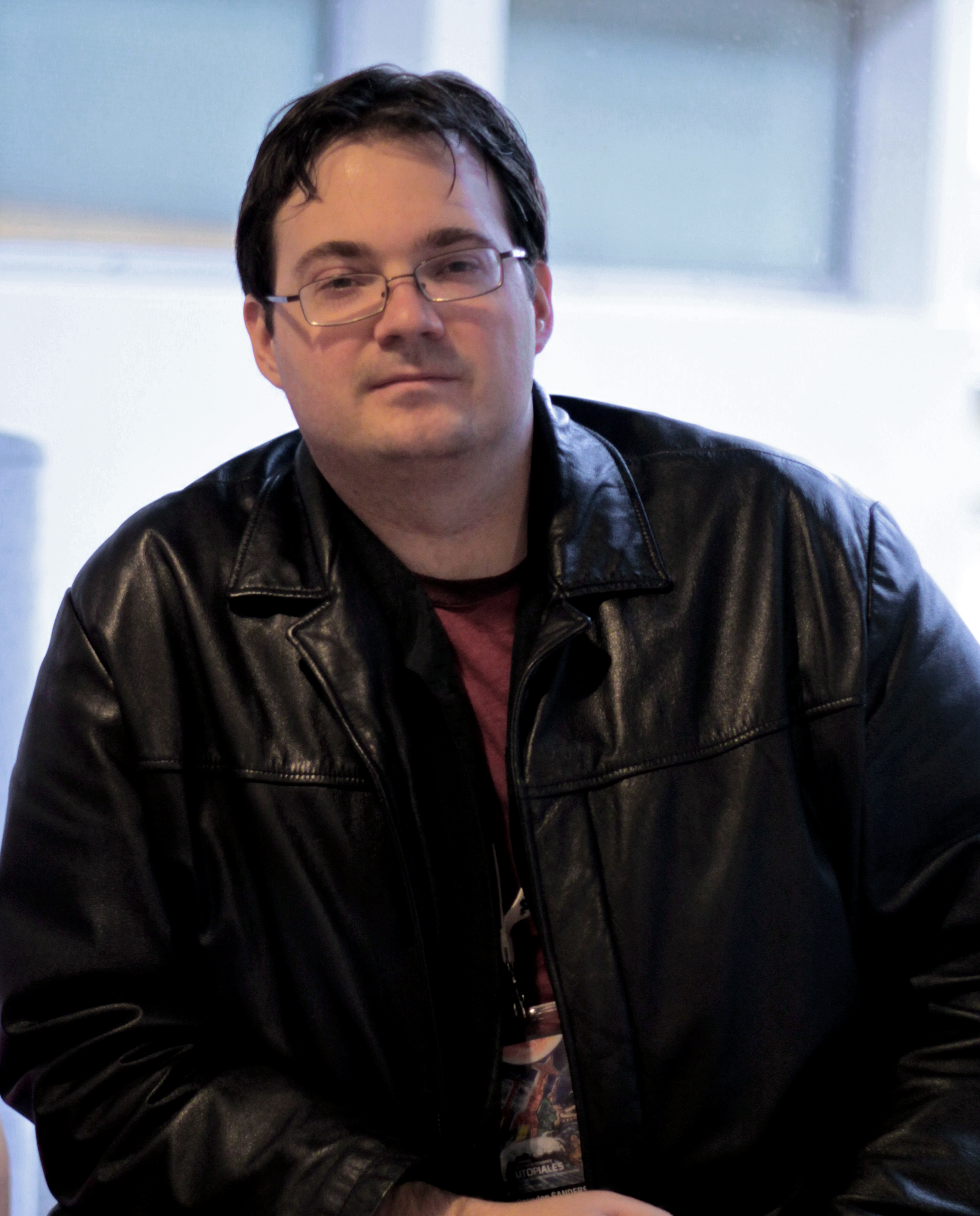 Author Brandon Sanderson at Utopiales 2010 (France).